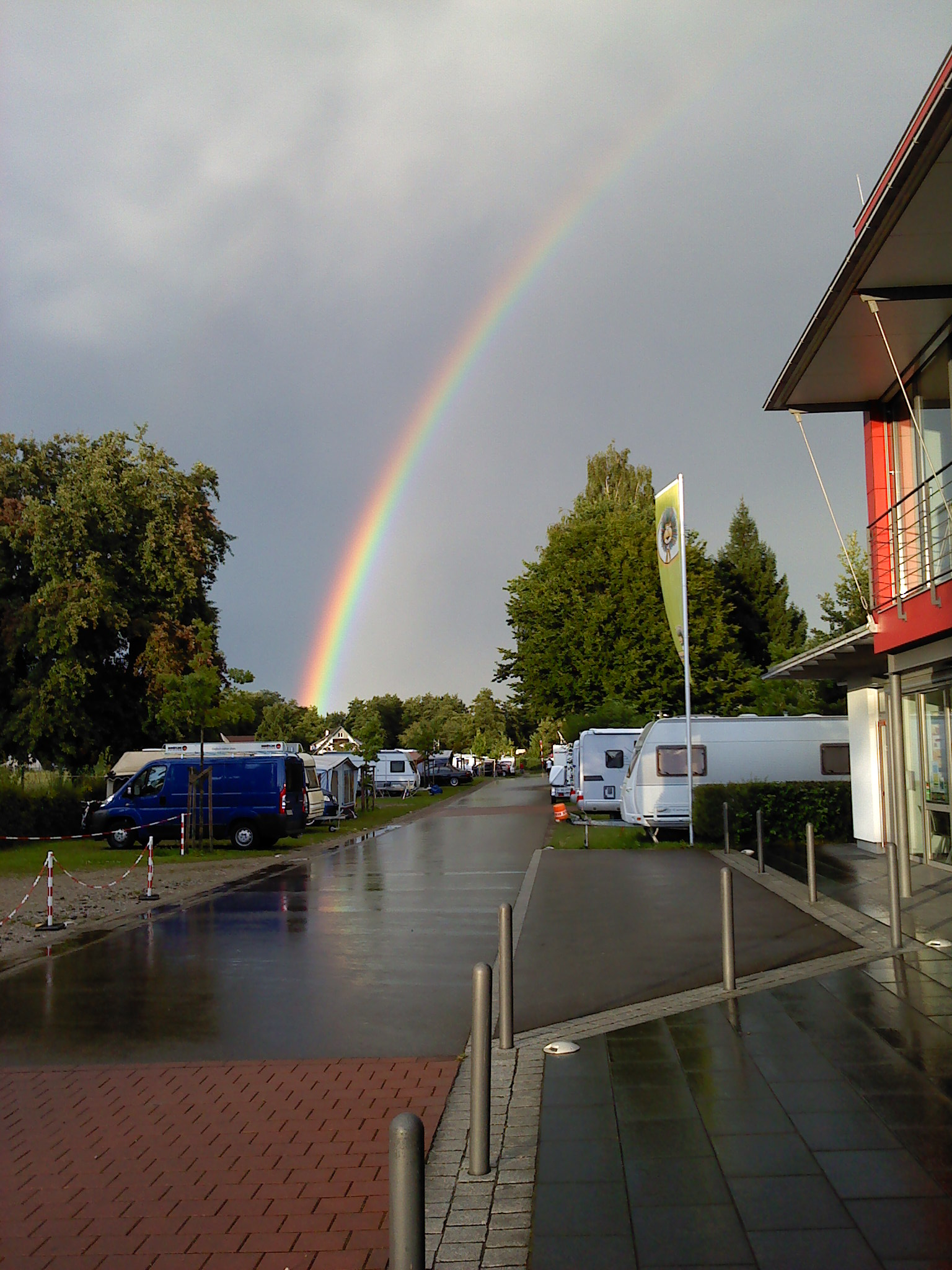 View from reception to the Campsite